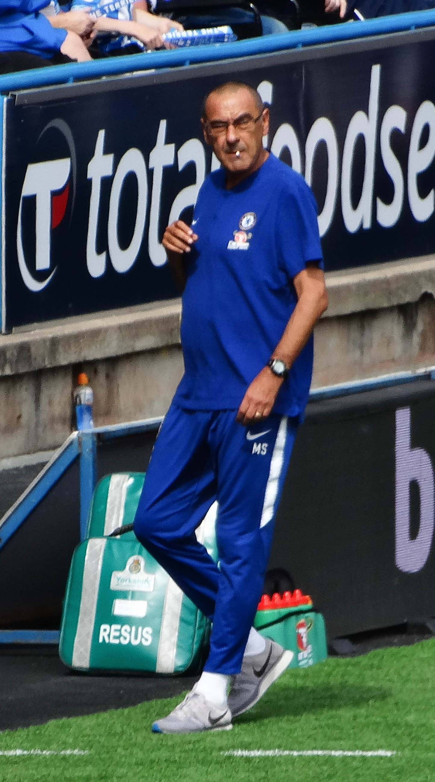 Maurizio Sarri as Chelsea coach (2018)